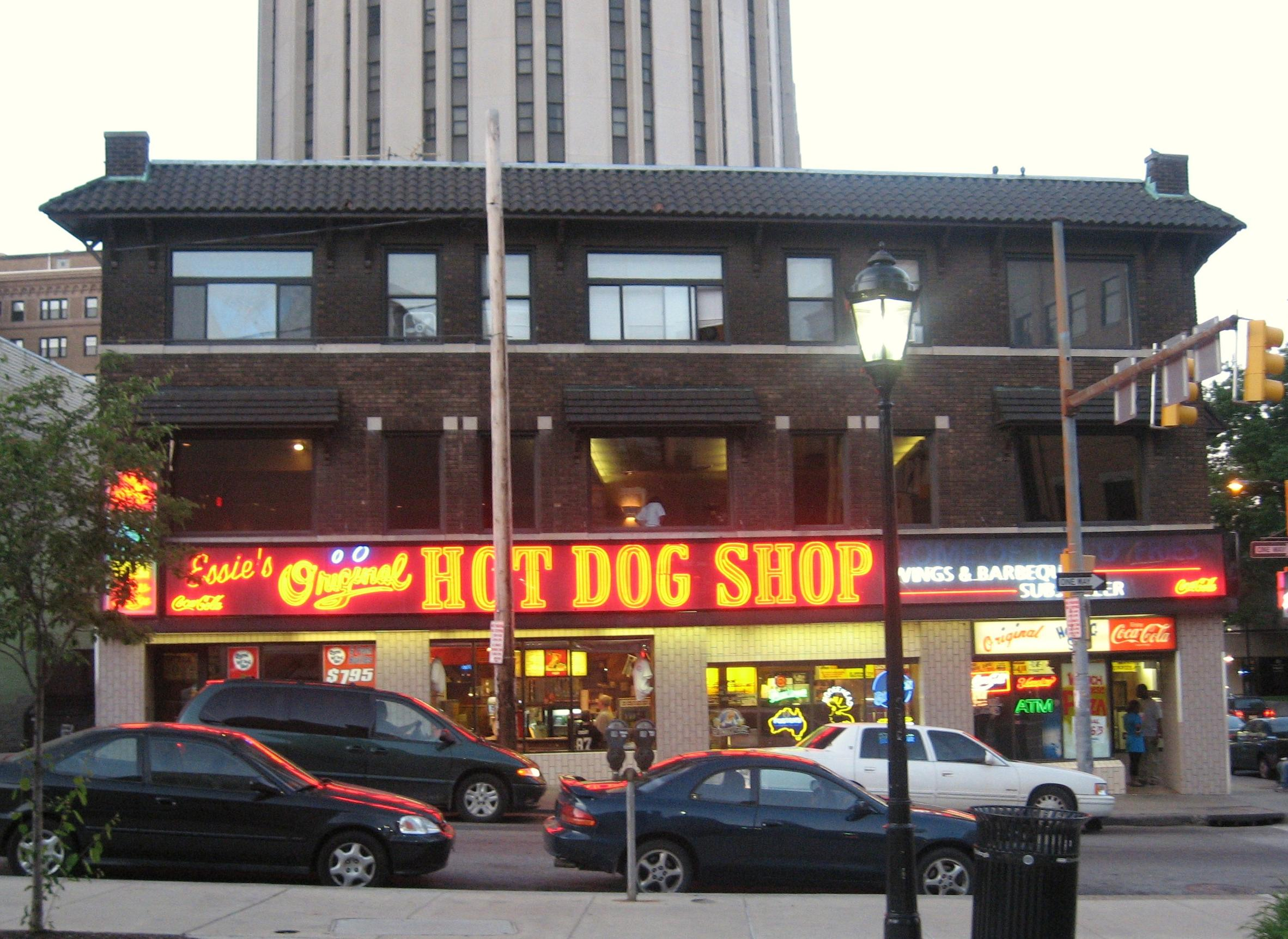 The O hot dog shop in the Oakland neighborhood of Pittsburgh 40°26′31.5″N 79°57′23.3″W / 40.442083°N 79.956472°W